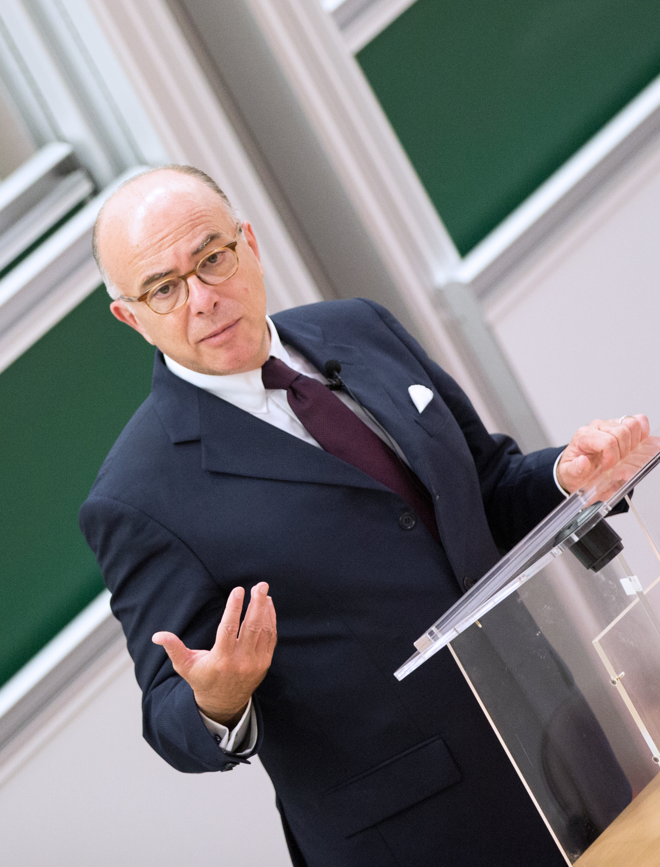 Conference of Bernard Cazeneuve, former Prime Minister of France, at the École Polytechnique